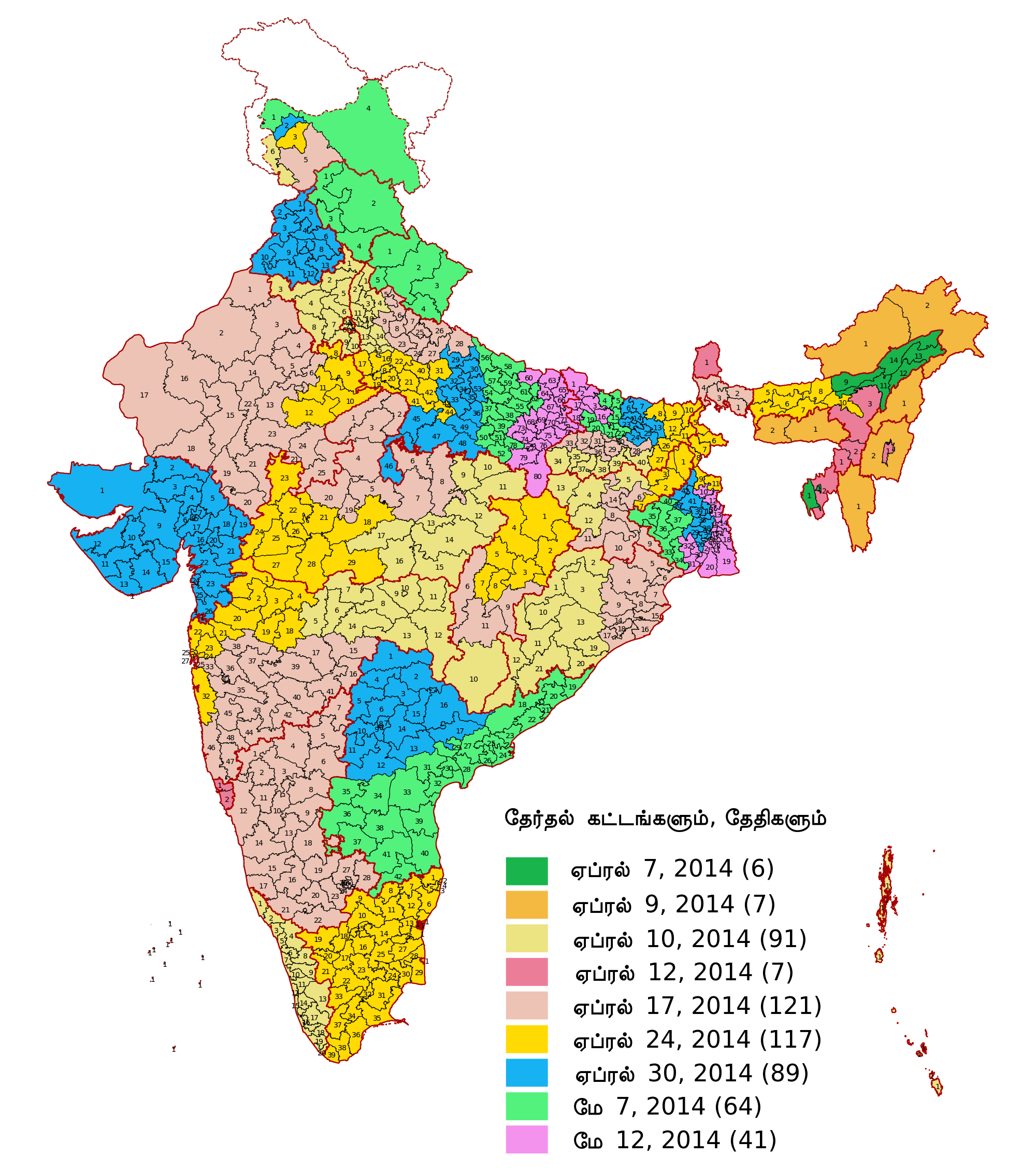 Election dates for the Indian general election, 2014.